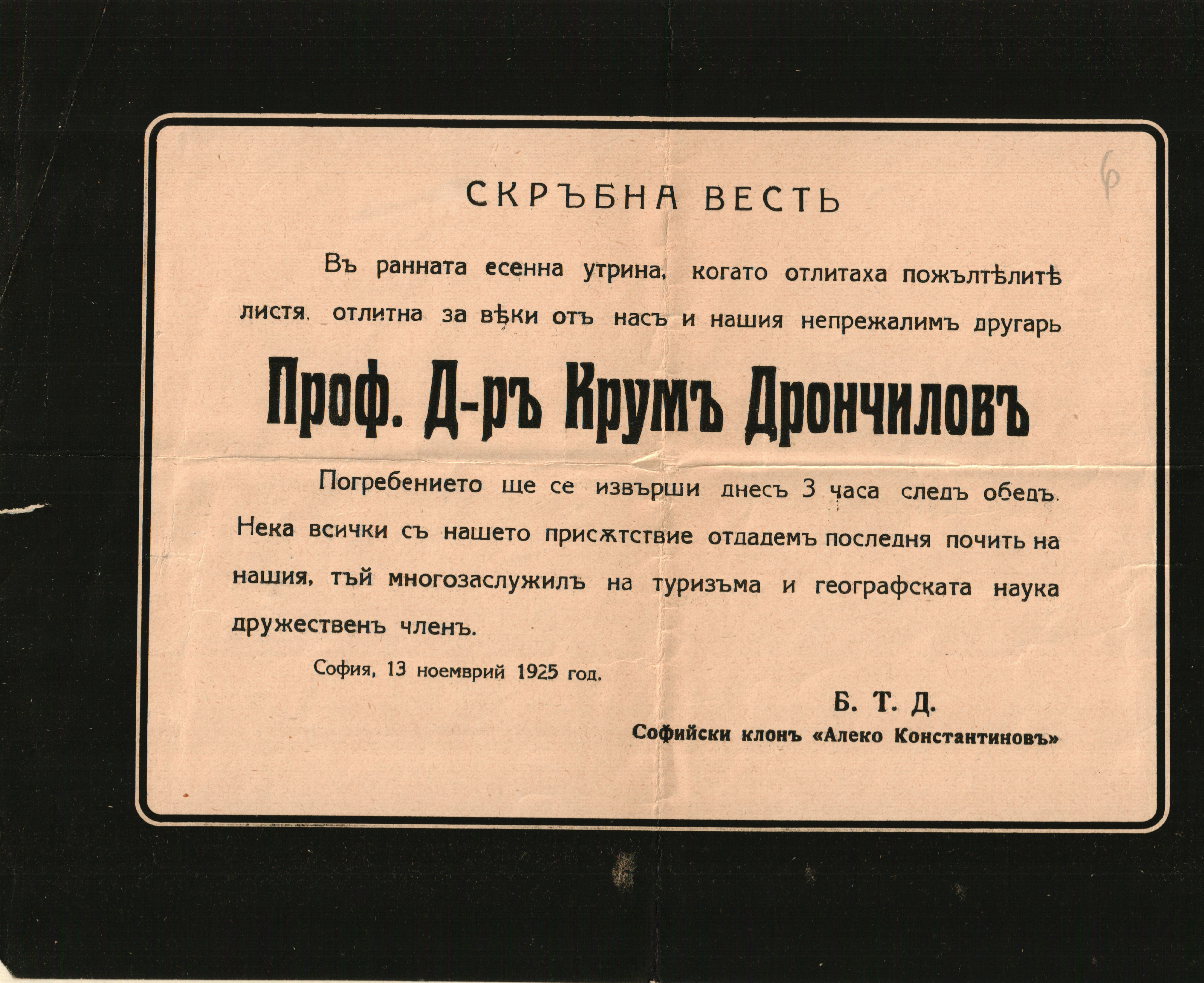 Krum Dronchilov Obuituary